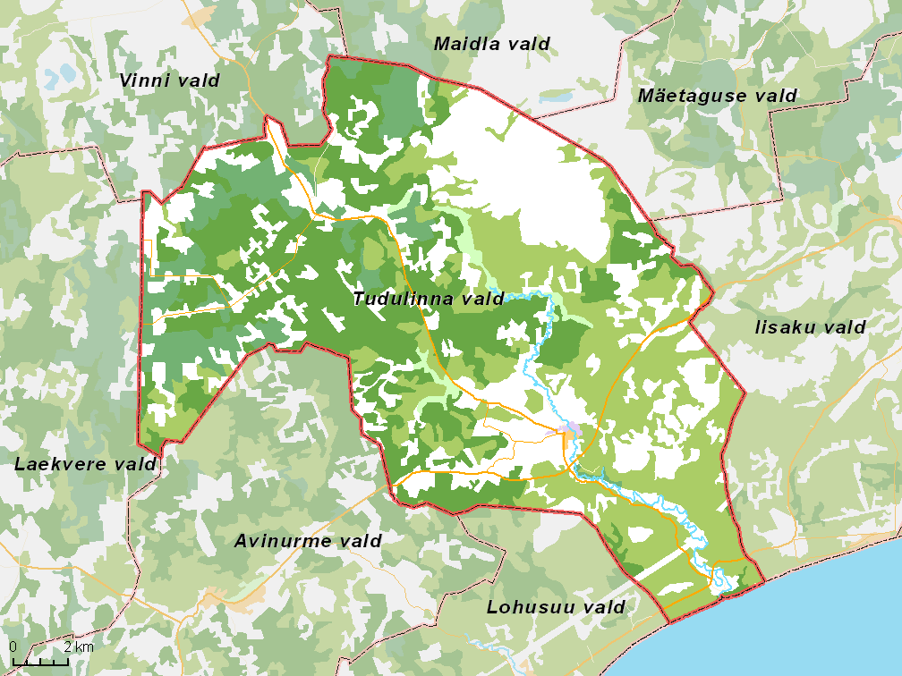 Map of municipality in Estonia